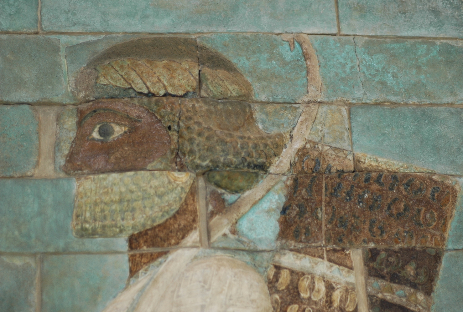 Archers frieze from Darius' palace at Susa. Glazed siliceous bricks, ca. 510 BC.